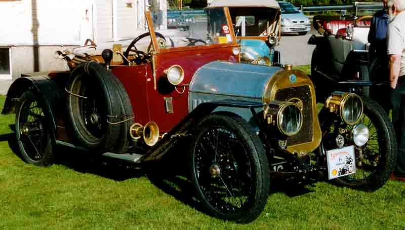 Gregoire 16/24 2-Seater 1911